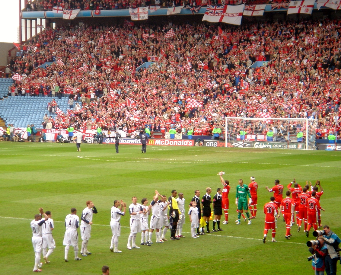 The players of Middlesbrough (in red) and West Ham United line-up before their FA Cup semi-final game at Villa Park, Birmingham.